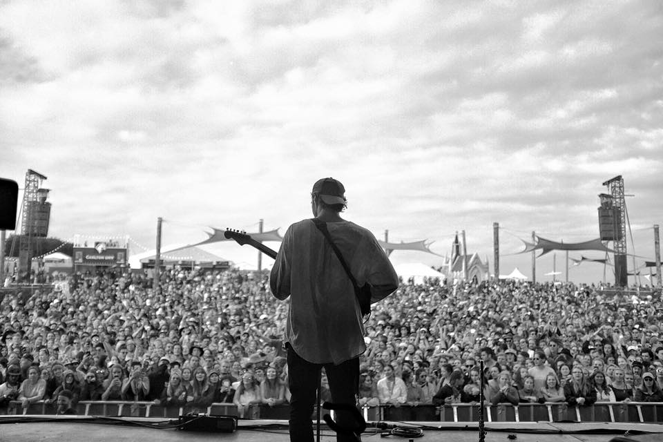 Photo by band member Jack Standen